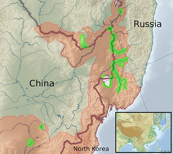 Historical distribution of the Chinese Softshell Turtle (Pelodiscus sinensis) in red, bordered by broken lines. Present-day distribution in green. Southern and northeastern halfs (both historical and present-day) of its distribution are outside the map